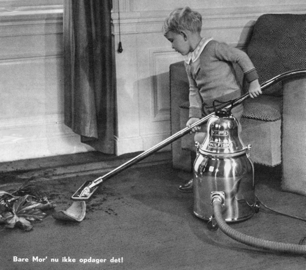 Boy vacuum cleaning